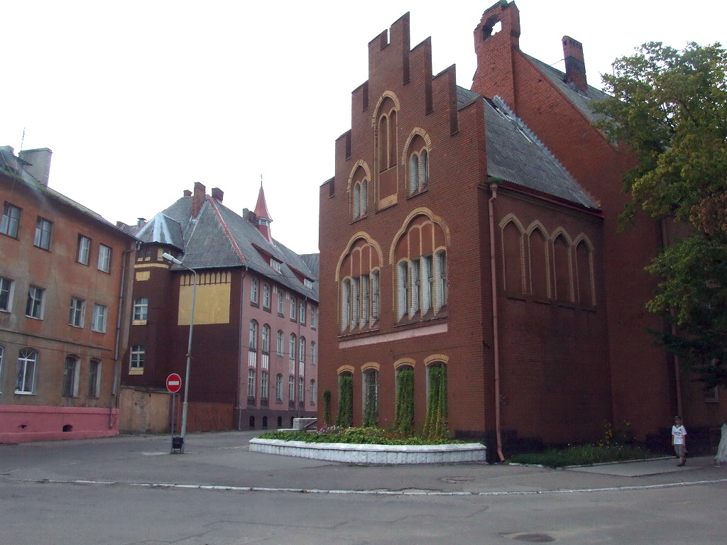 Museum of Baltic Fleet in Baltiysk